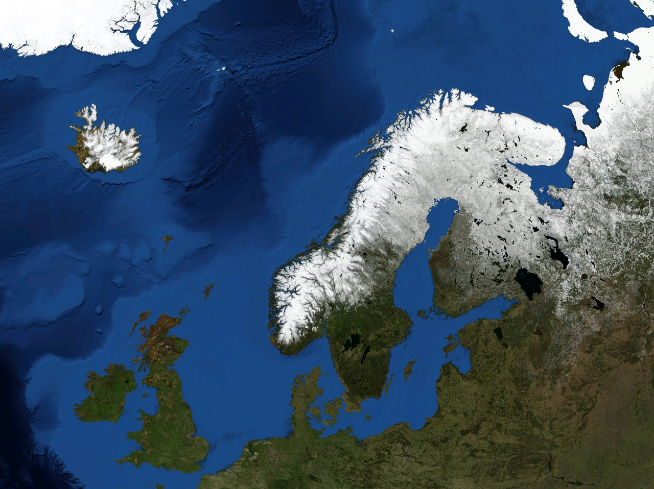 Satellite imagery of Northern Europe.